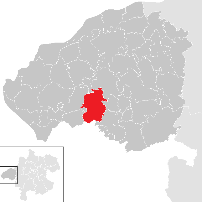 district Braunau am Inn